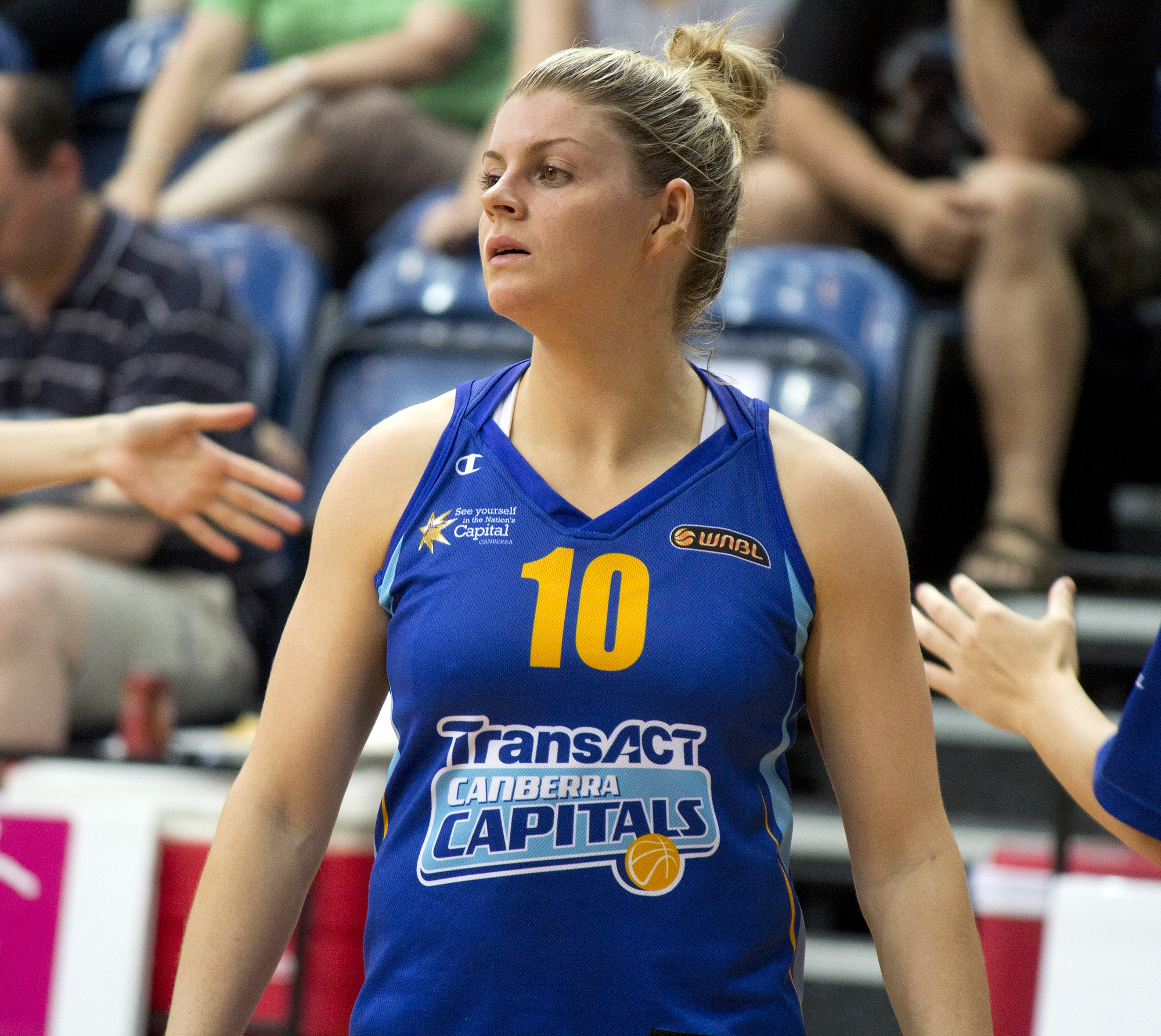 Nicole Hunt at the Canberra Capitals vs Logan Thunder held at AIS Arena at the Australian Institute of Sport